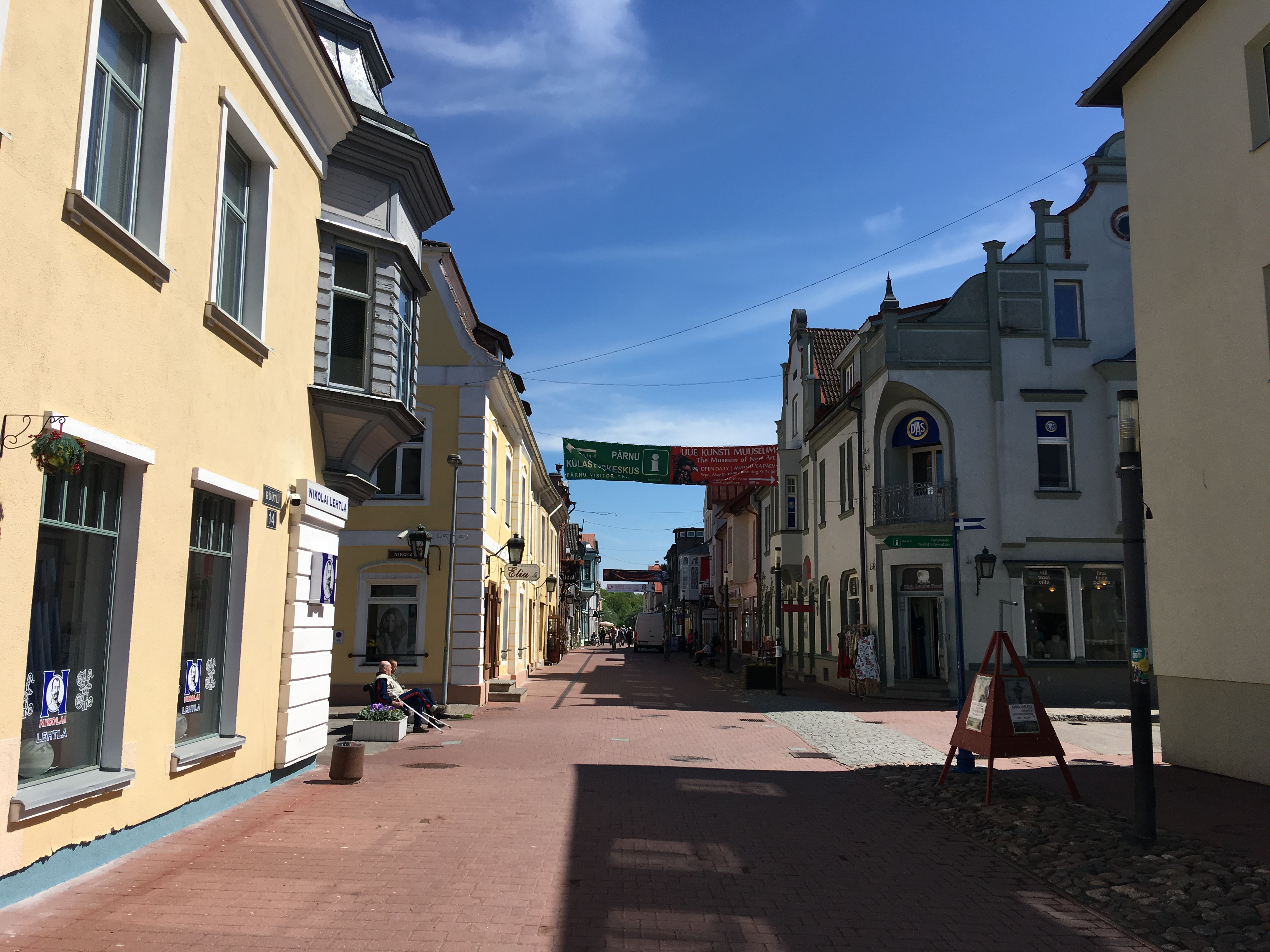 Rüütli street, Pärnu, Estonia - May 2017